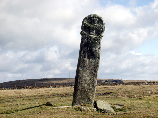 Long Tom. A Christianised standing stone, near Minions on Bodmin Moor. Caradon Hill radio mast can be seen in the background.